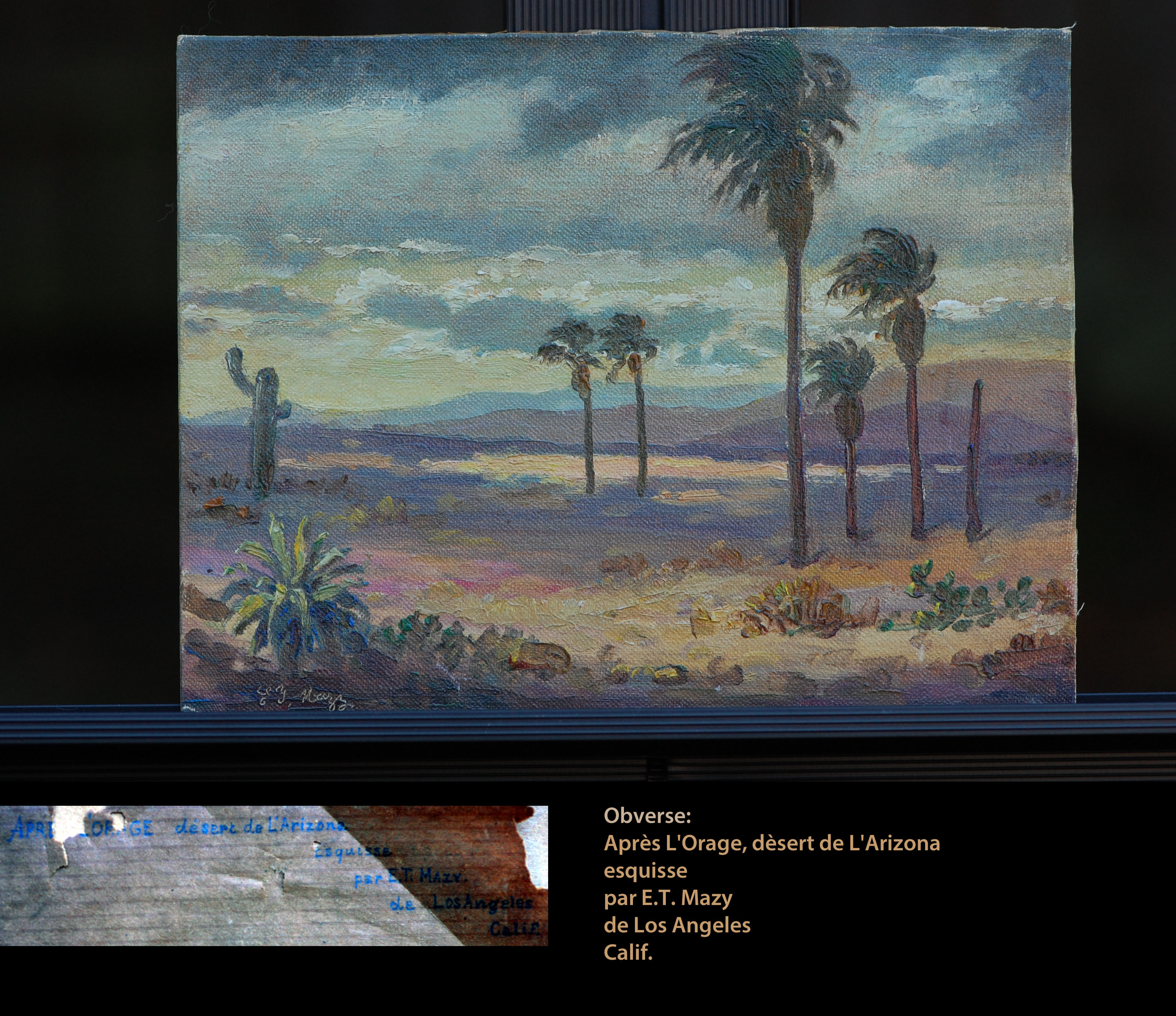 "After the Storm", the Arizona desert sketch By E.T. Mazy of Los Angeles, Calif. A miniature measuring 7"x9" held privately by family.